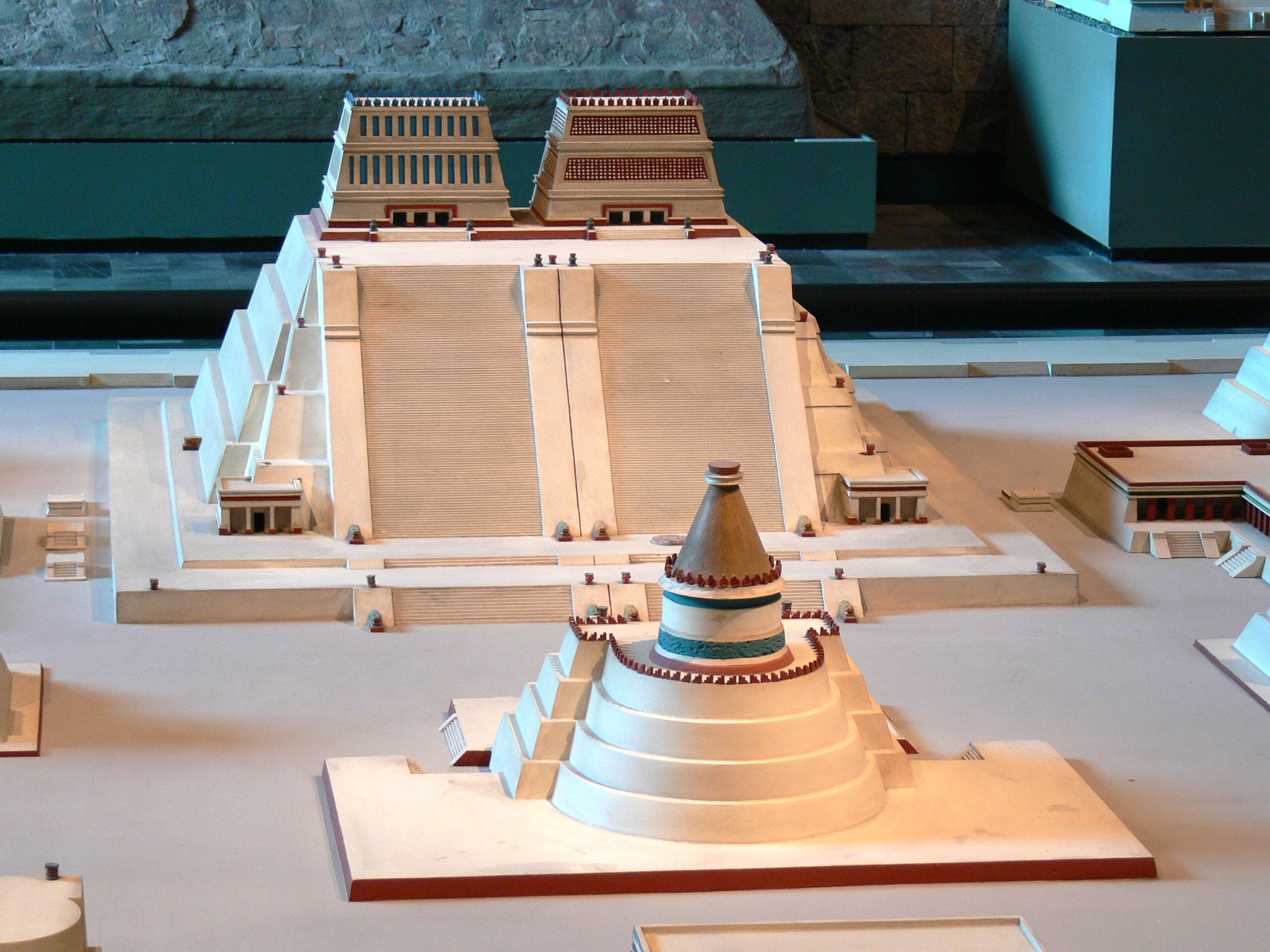 National Museum of Anthropology in Mexico City. Reconstruction of the Templo Mayor of Tenochtitlan